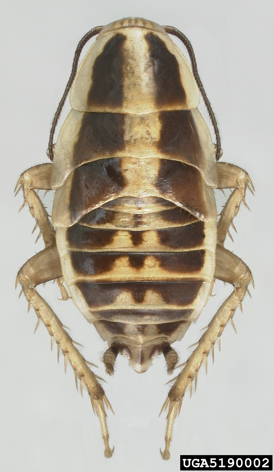 Nymph Asian cockroach - Blattella asahinai